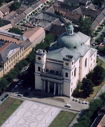 Vác Cathedral